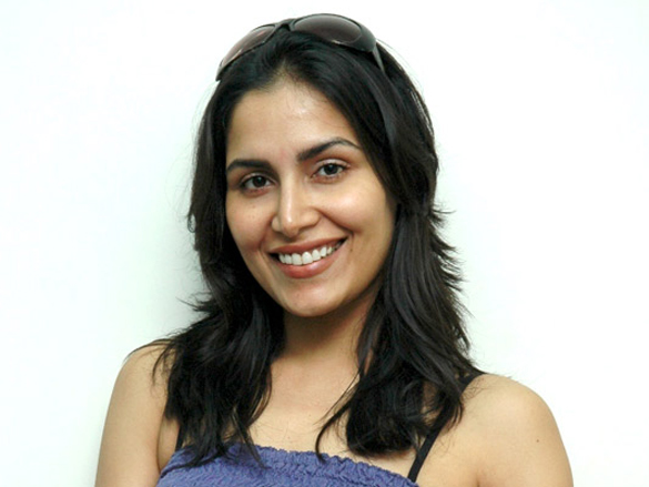 Tapur chatterji at the 1st Bharat and Dorris makeup and hair style Awards 2009.